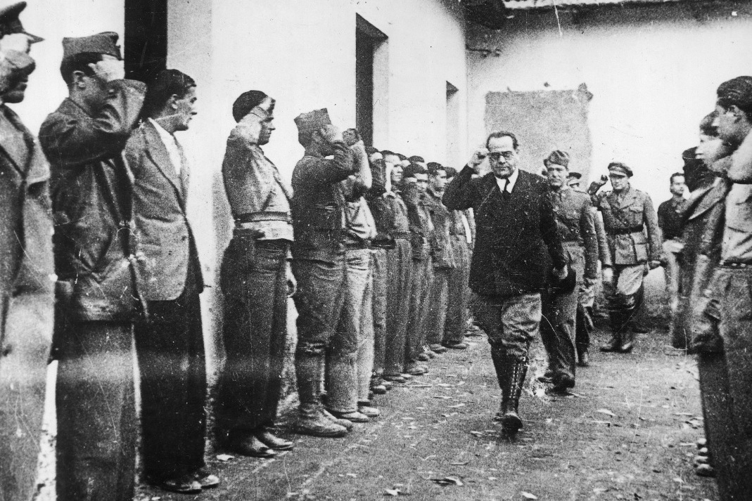 Negrin inspecting troops. Picture downloaded from NAC, the Polish digital photo archive, at the original site quoted as free of copyright original signature 1-E-6805